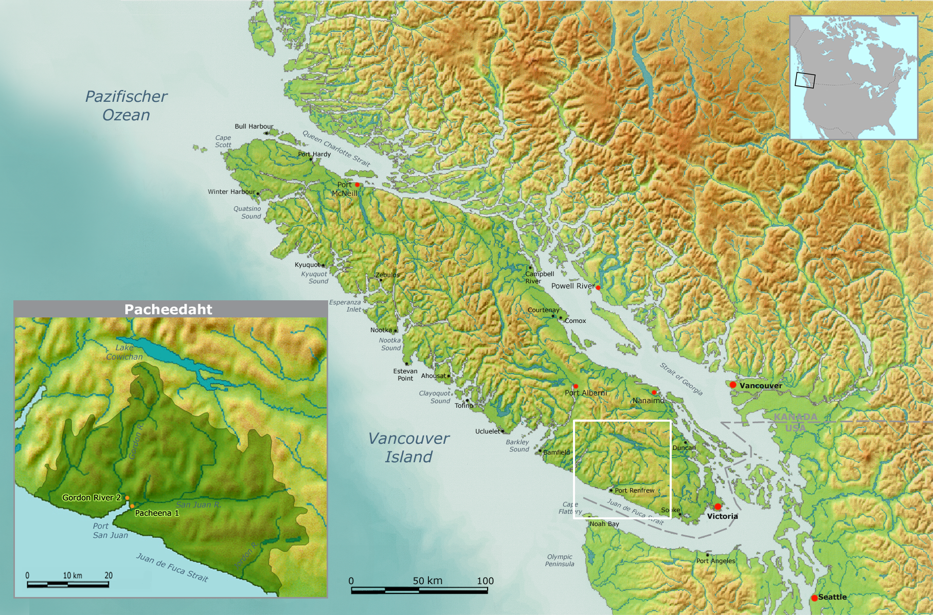 Map of traditional Pacheedaht tribal territory.